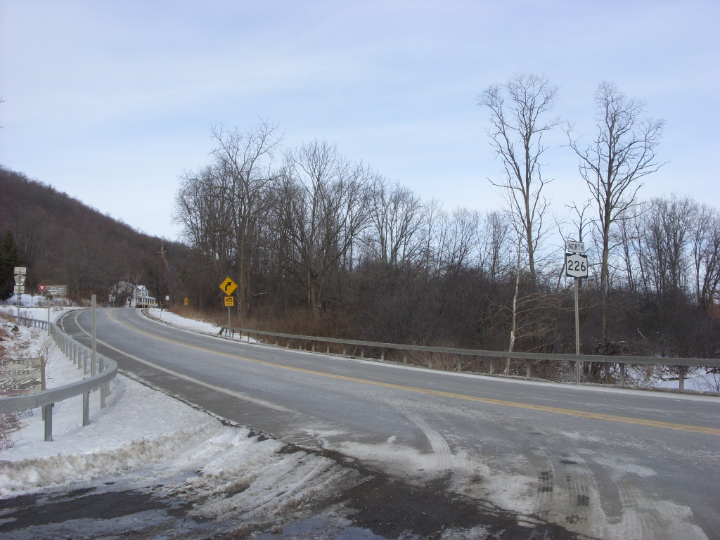 New York State Route 226 north through Schuyler County near a CR junction.